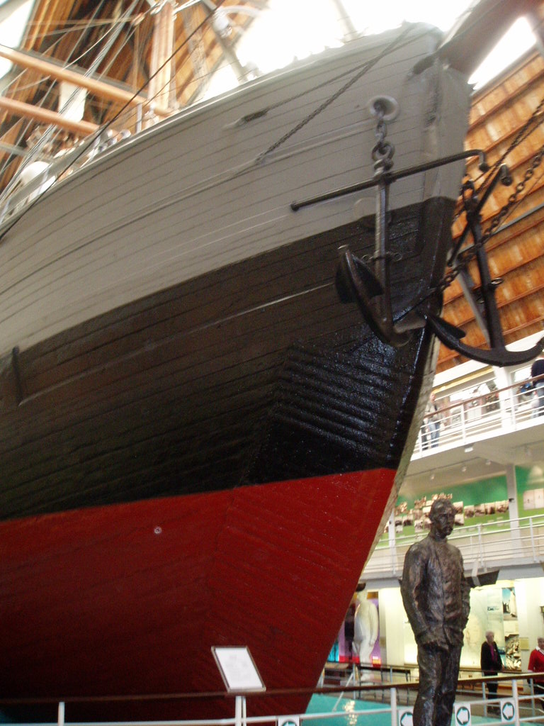 The bow of the Fram ship, with a statue of Nansen